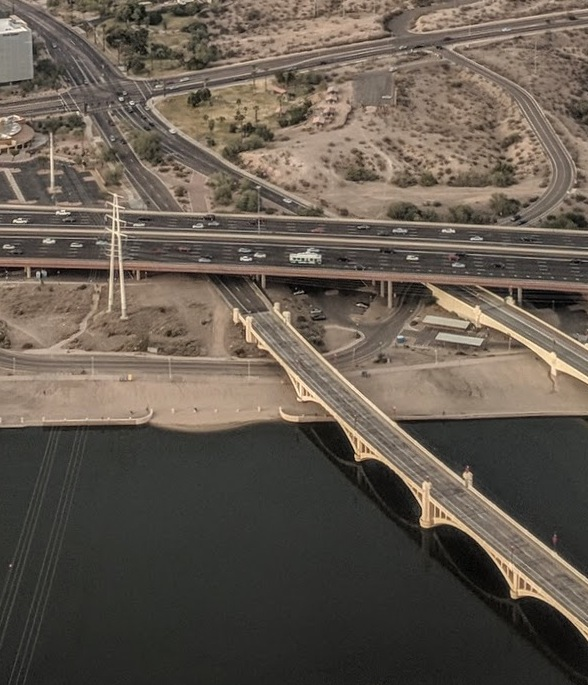 Bridges across the Tempe Town Lake on the Salt River in Tempe, Arizona. Tempe Beach Park in the foreground, and the building with HOPE on it at 350 W Washington St across the river.